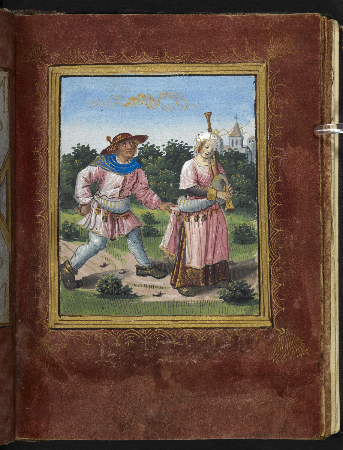 Petit Livre d'Amour (British Library Stowe MS 955) A man and a woman playing bagpipes (Robin and Marion)